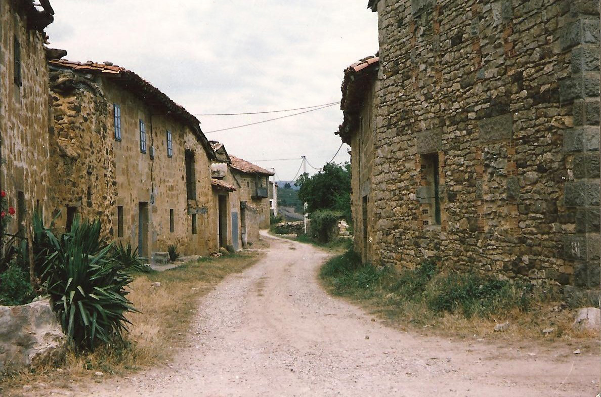 Olleros in 1987